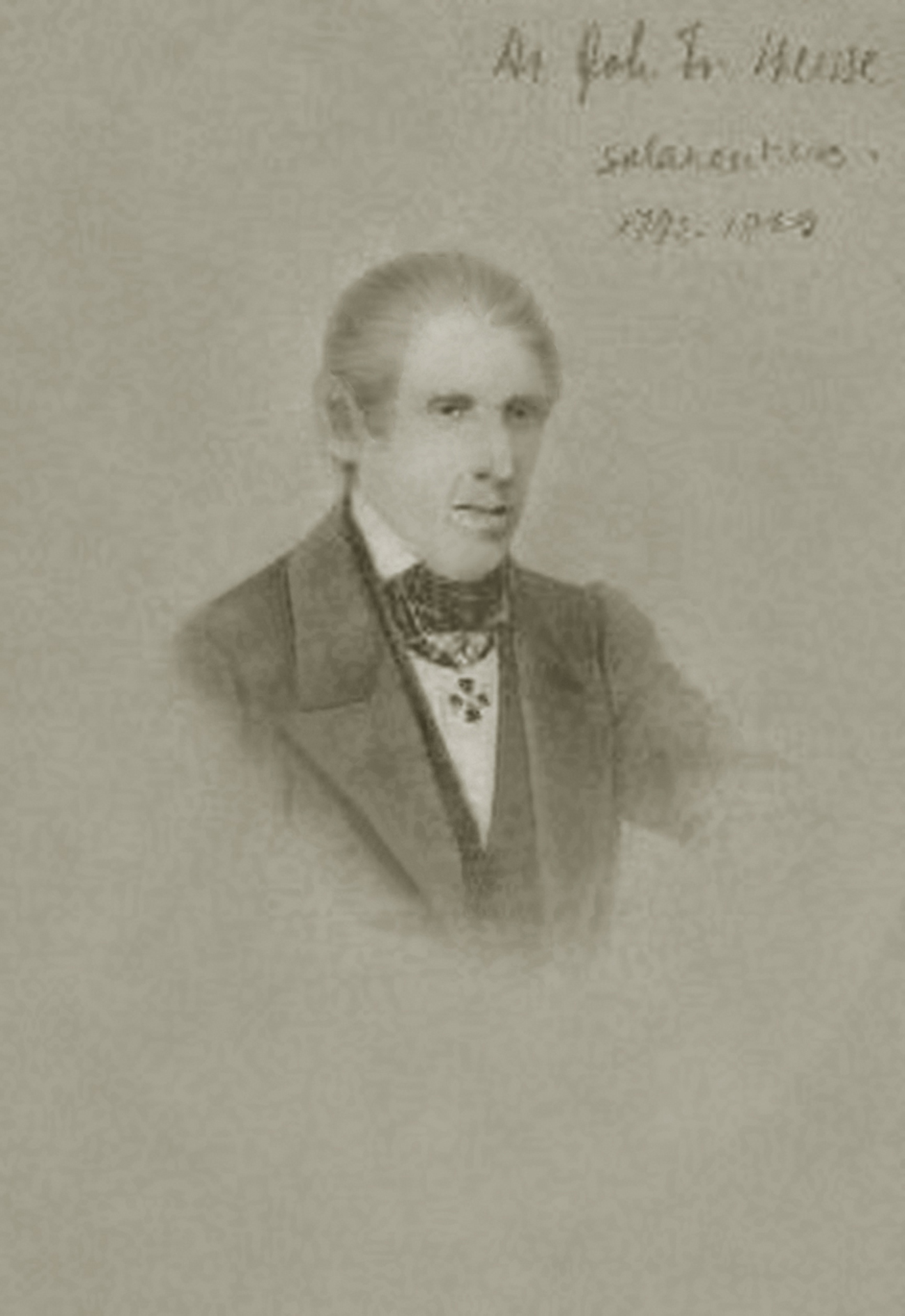 von Weiße Johann Friedrich. Professor of Pediatrics